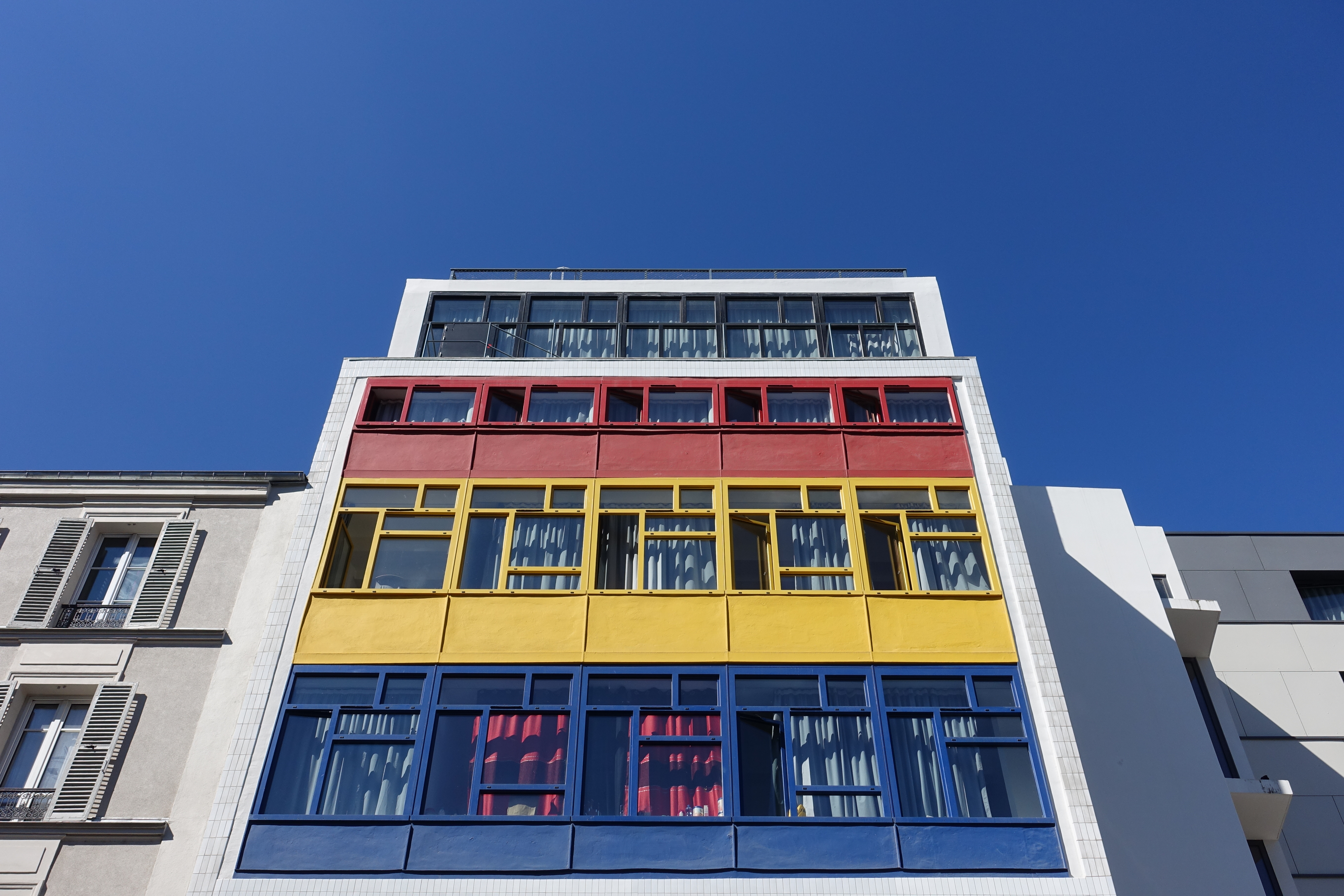 Paris Rive Gauche @ Paris